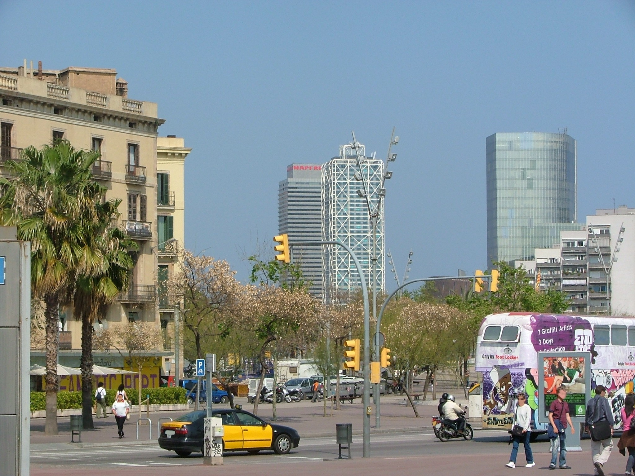 Passeig de Colom, Barcelona , Catalonia, Spain.